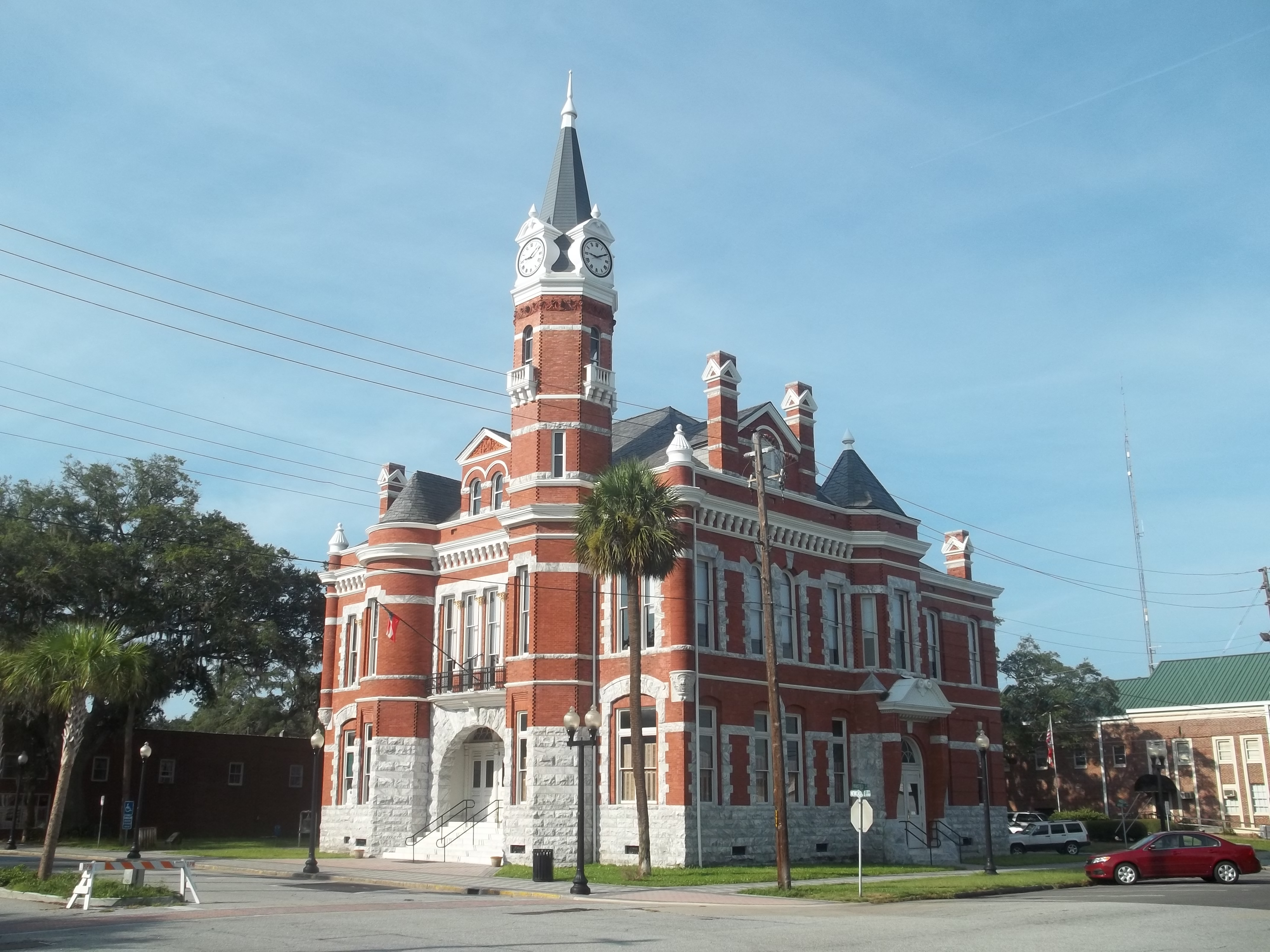 Brunswick, Georgia: Brunswick Old Town Historic District: City hall